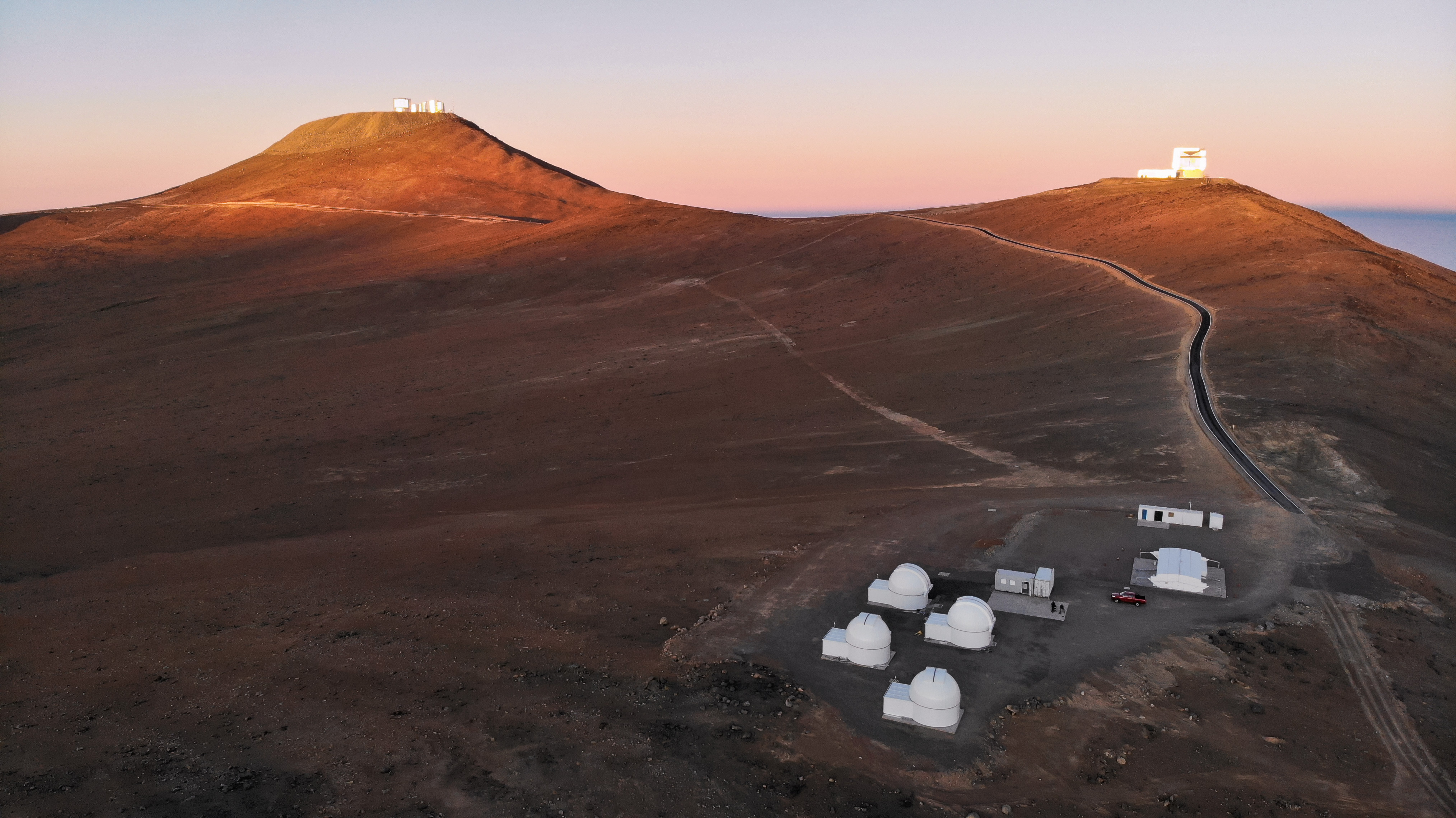 First Light for SPECULOOS The SPECULOOS Southern Observatory has made its first observations on site at the European Southern Observatory’s Paranal Observatory in northern Chile. SPECULOOS will focus on detecting Earth-sized planets orbiting nearby ultra-cool stars and brown dwarfs. Credit: tau-tec GmbH/ Michael Ruder /ESO